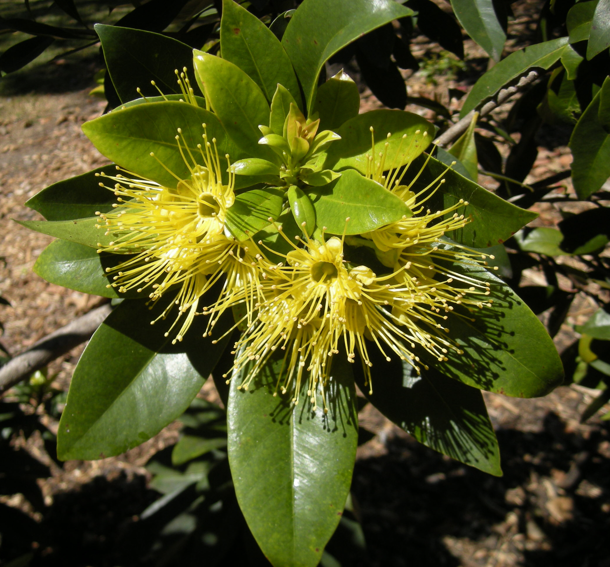 Xanthostemon chrysanthus flowers